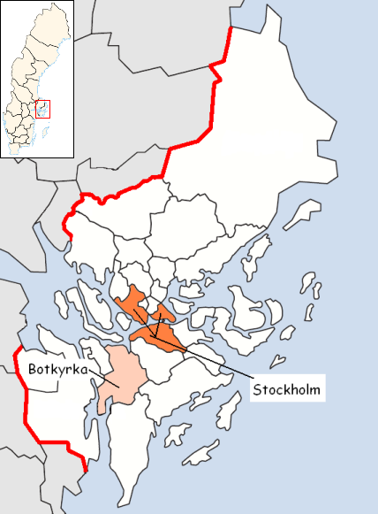 Botkyrka Municipality in Stockholm County Designed by me. Mere outlines are a PD source from